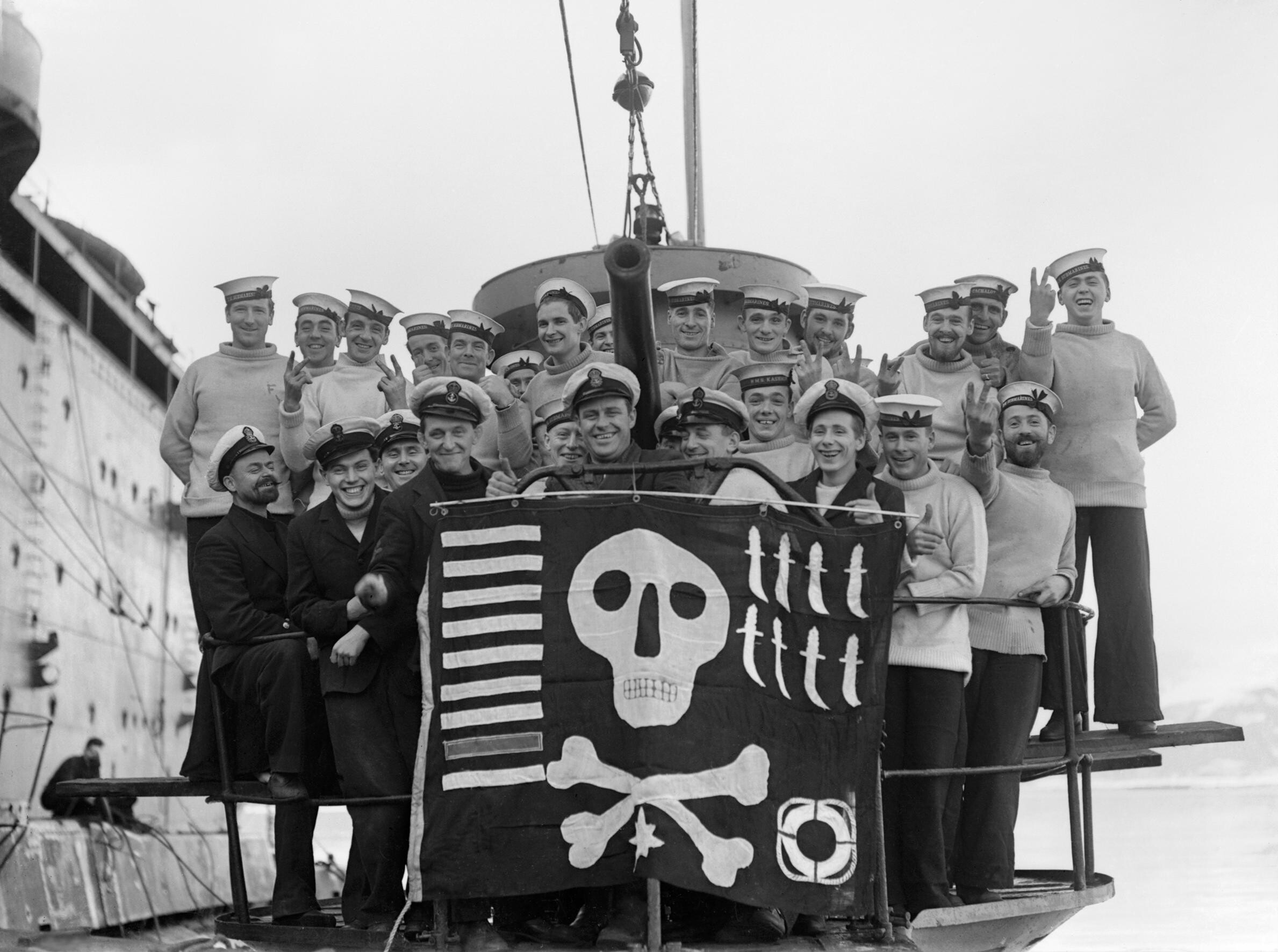 Members of the crew of HMSM UTMOST with their "Jolly Roger" success flag, photographed alongside HMS FORTH in Holy Loch, on their return from a year's service in the Mediterranean.